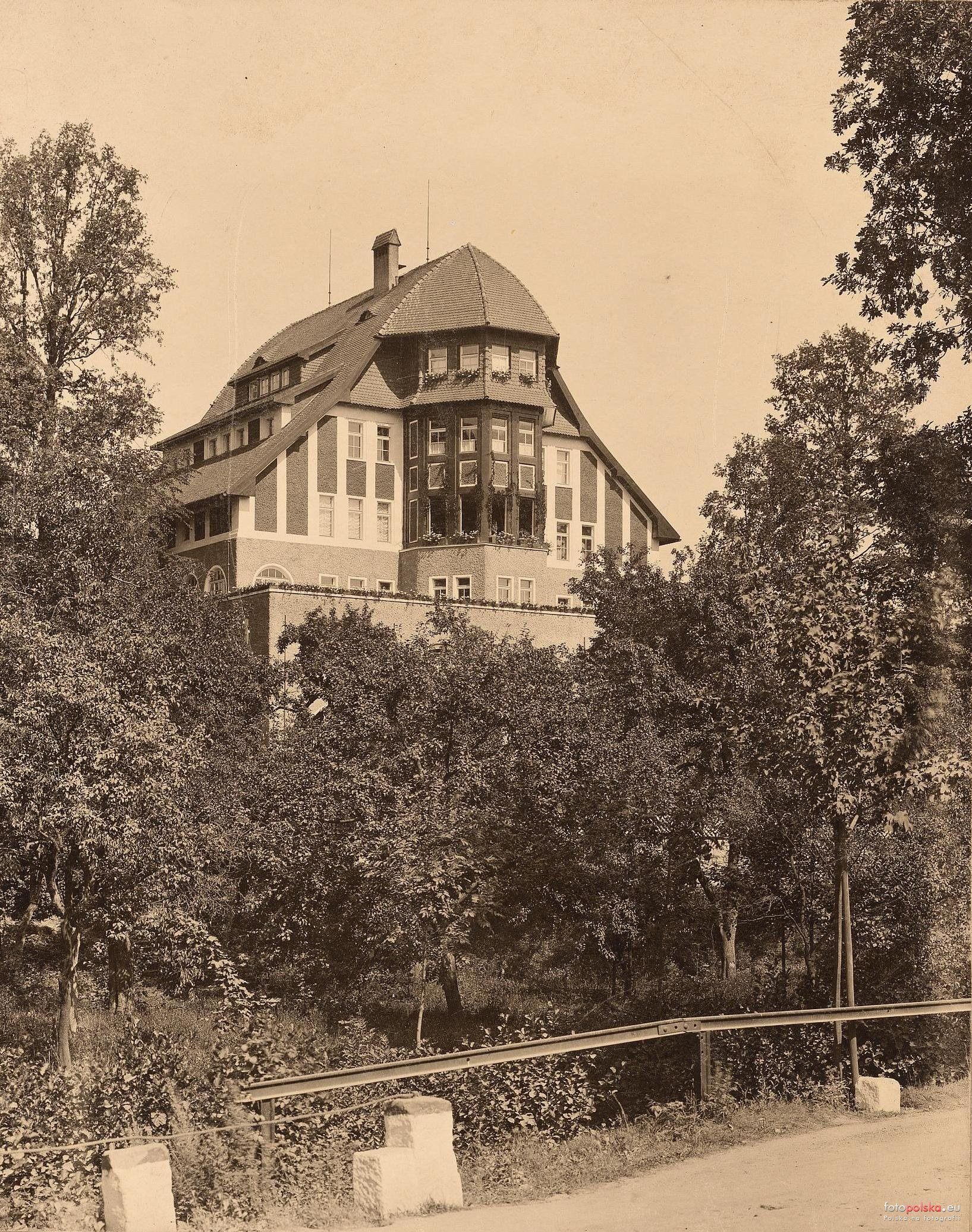 Willa Boberhaus